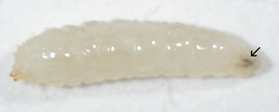 Image of a Drosophila melanogaster 2nd instar larva. Mouth parts (black) are indicated with an arrow.